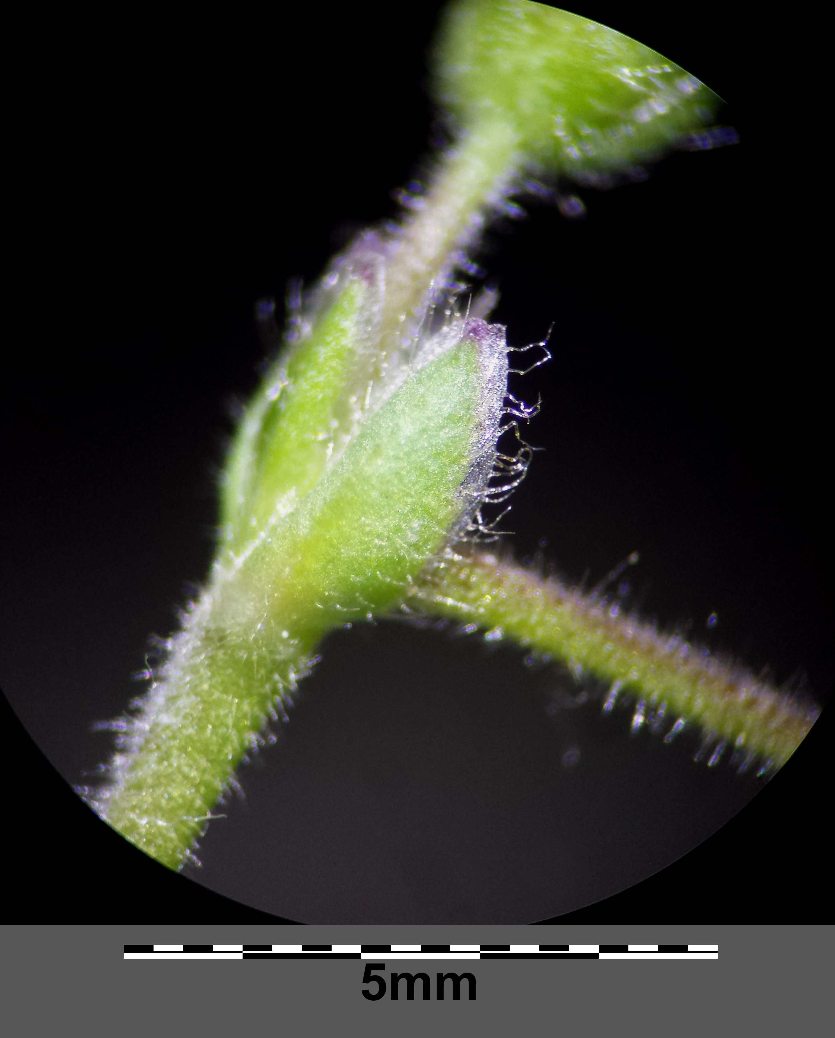 Bracts with scarious margin Taxonym: Cerastium holosteoides ss Fischer et al. EfÖLS 2008 ISBN 978-3-85474-187-9 Location: near Niederhollabrunn, district Korneuburg, Lower Austria - ca. 350 m a.s.l. Habitat: wine yard